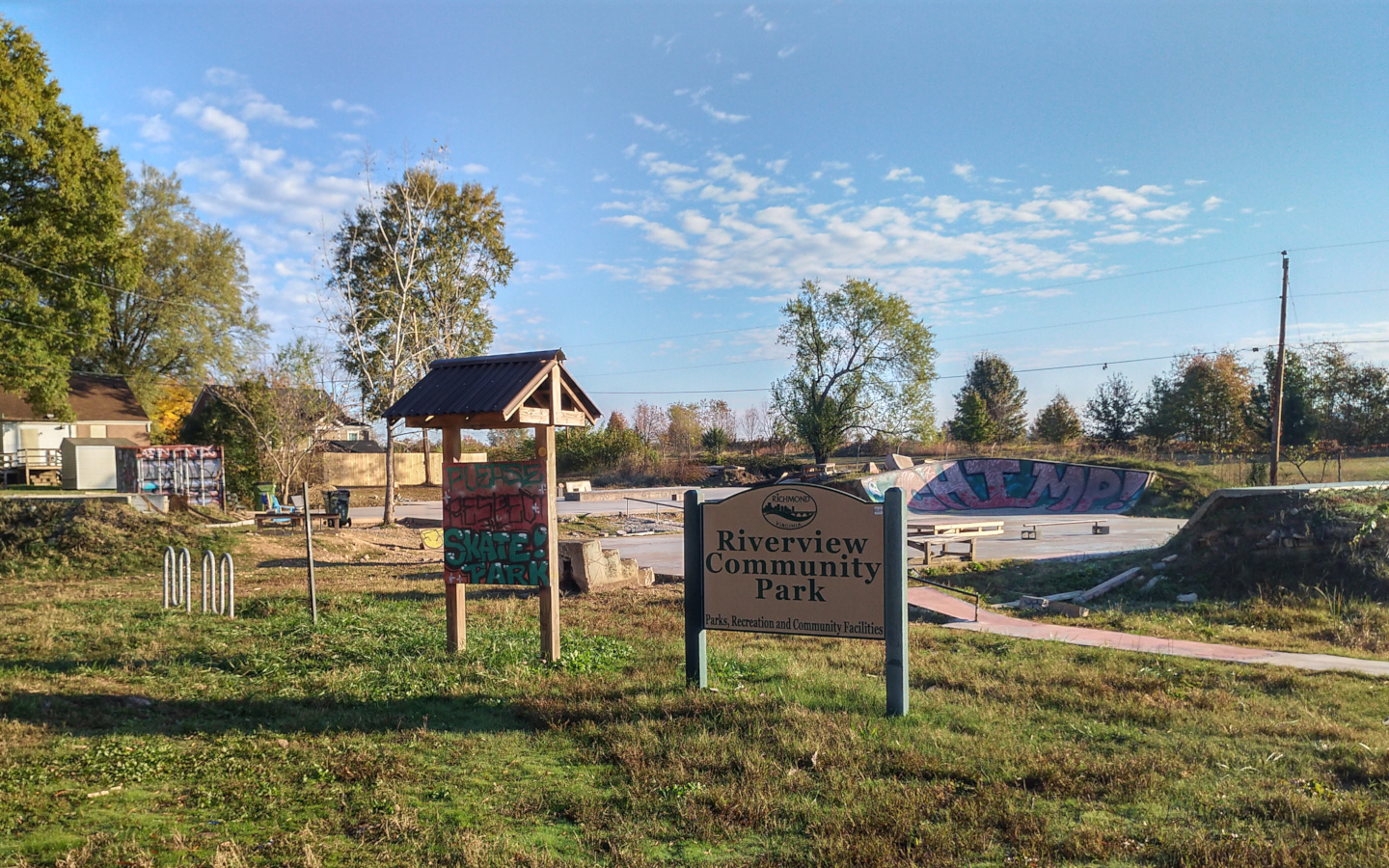 Photo of Riverview Community Park (with Texas Beach Skate Park in background), Richmond, Virginia, United States, taken on Sunday, 2019 November 10, at 0805 EST